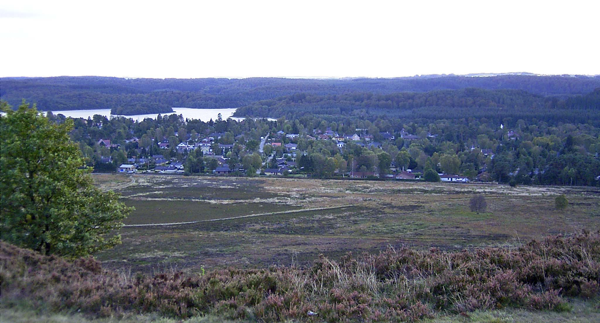 The village Sejs and the river Gudenå as seen from the top of the nearby hills. Sejs is located close to Silkeborg in Jutland Denmark.